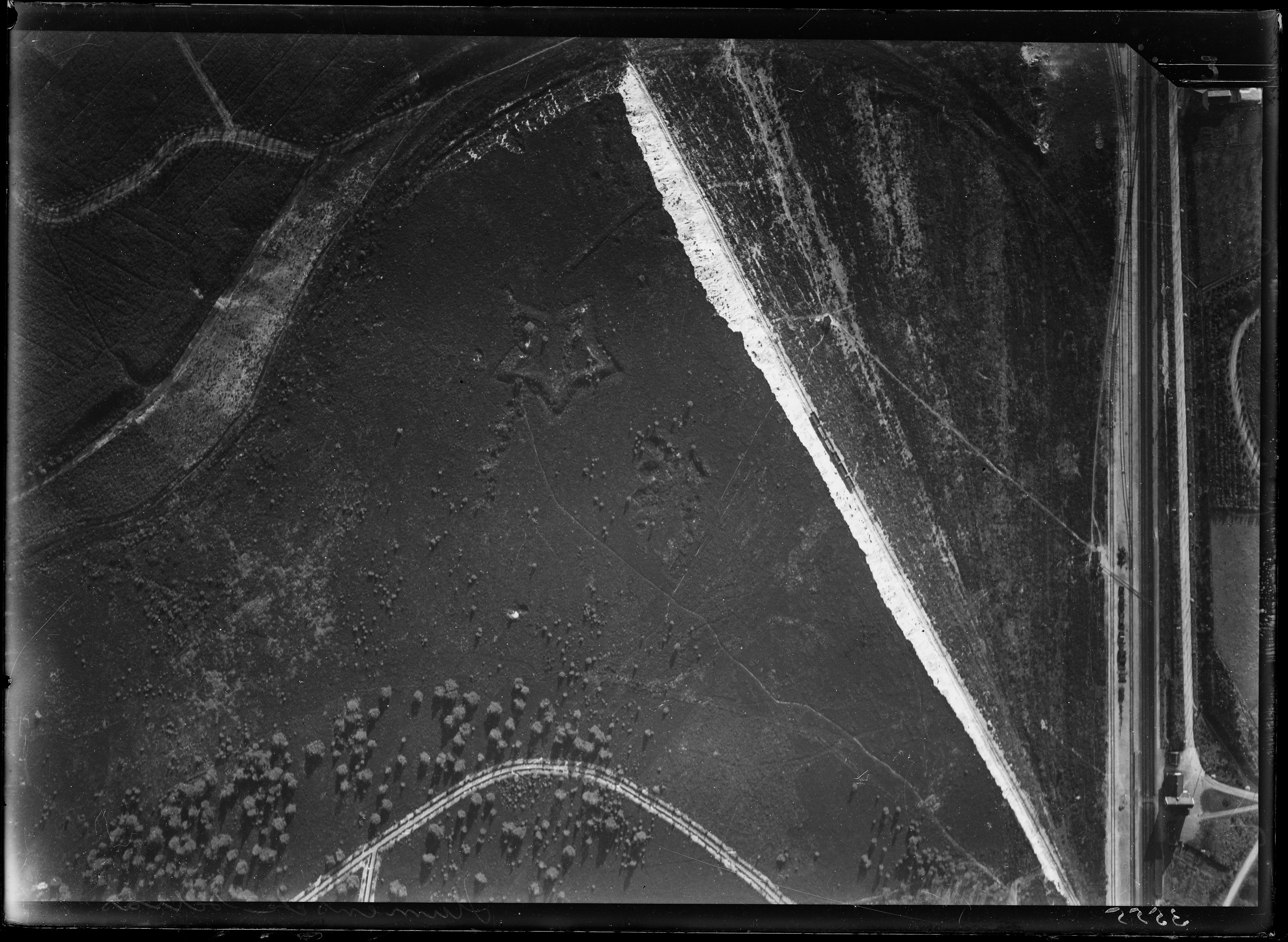 Aerial photograph of Heumensche Schans, The Netherlands